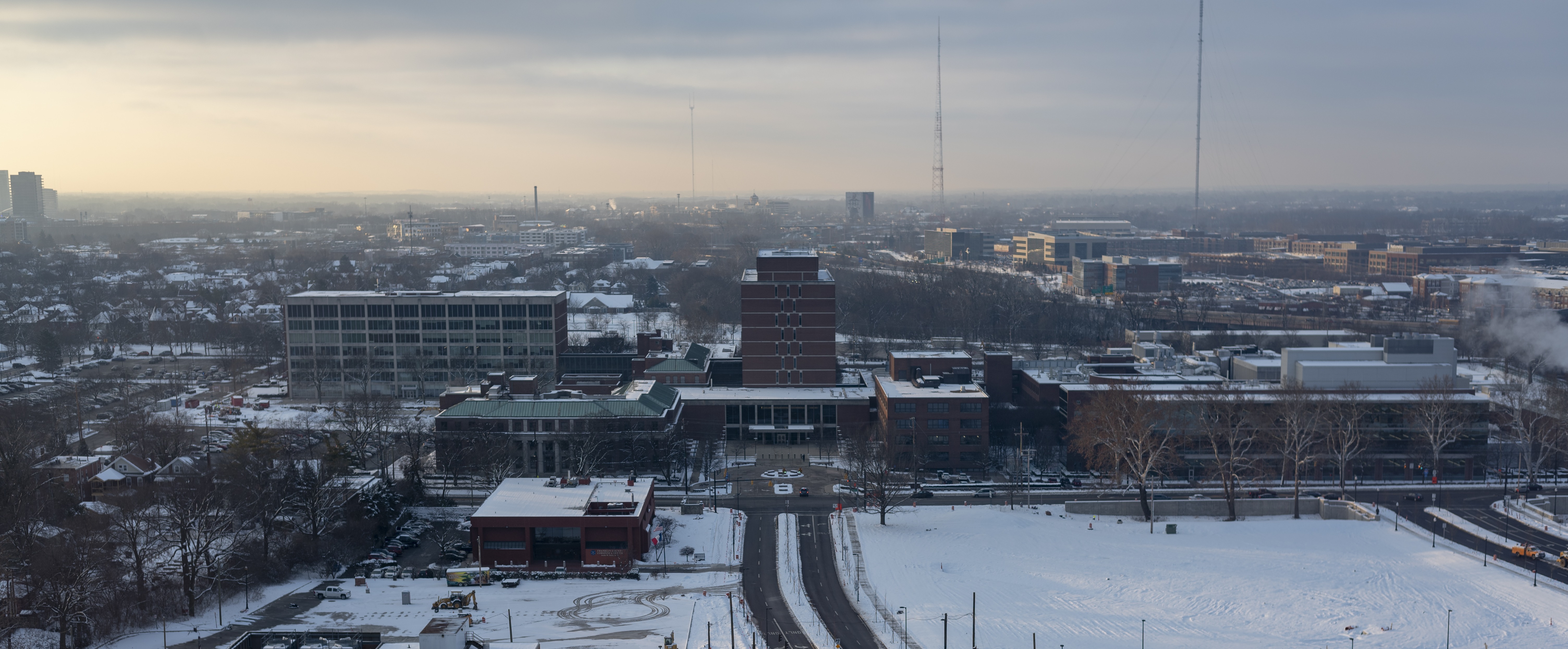 Battelle Memorial Institute on King Ave in Columbus, Ohio in winter.